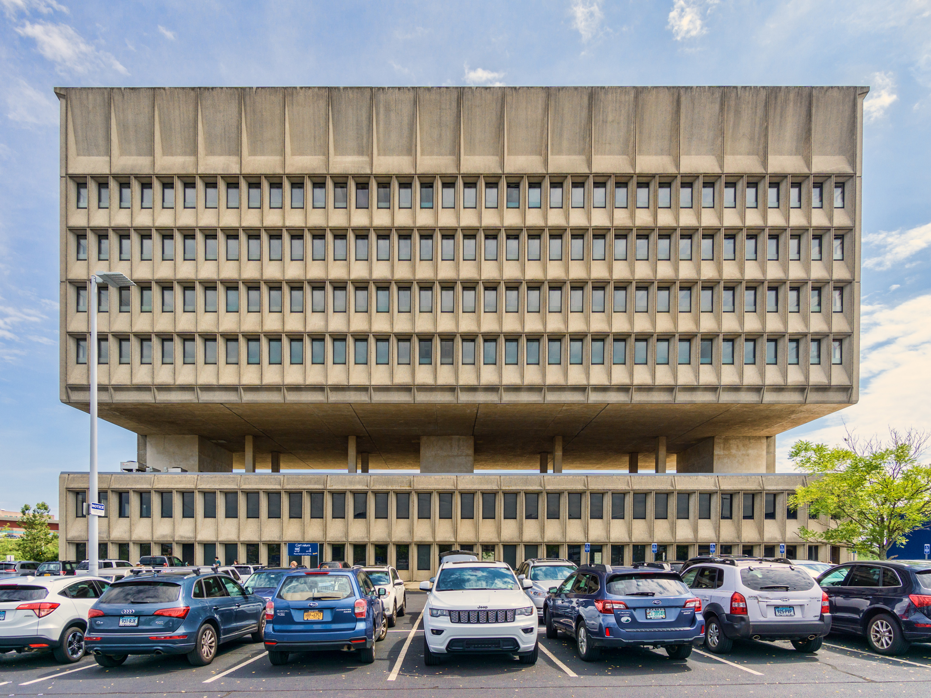 Pirelli Building, aka Armstrong Rubber building, New Haven, CT. Marcel Breuer, 1969-1970.